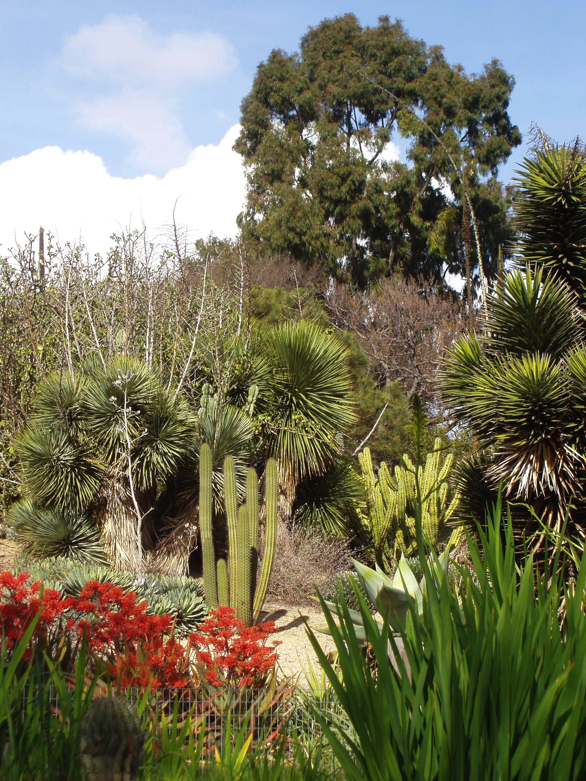 General view of the University of California, Irvine, Arboretum. Photograph taken by me, January 2006.